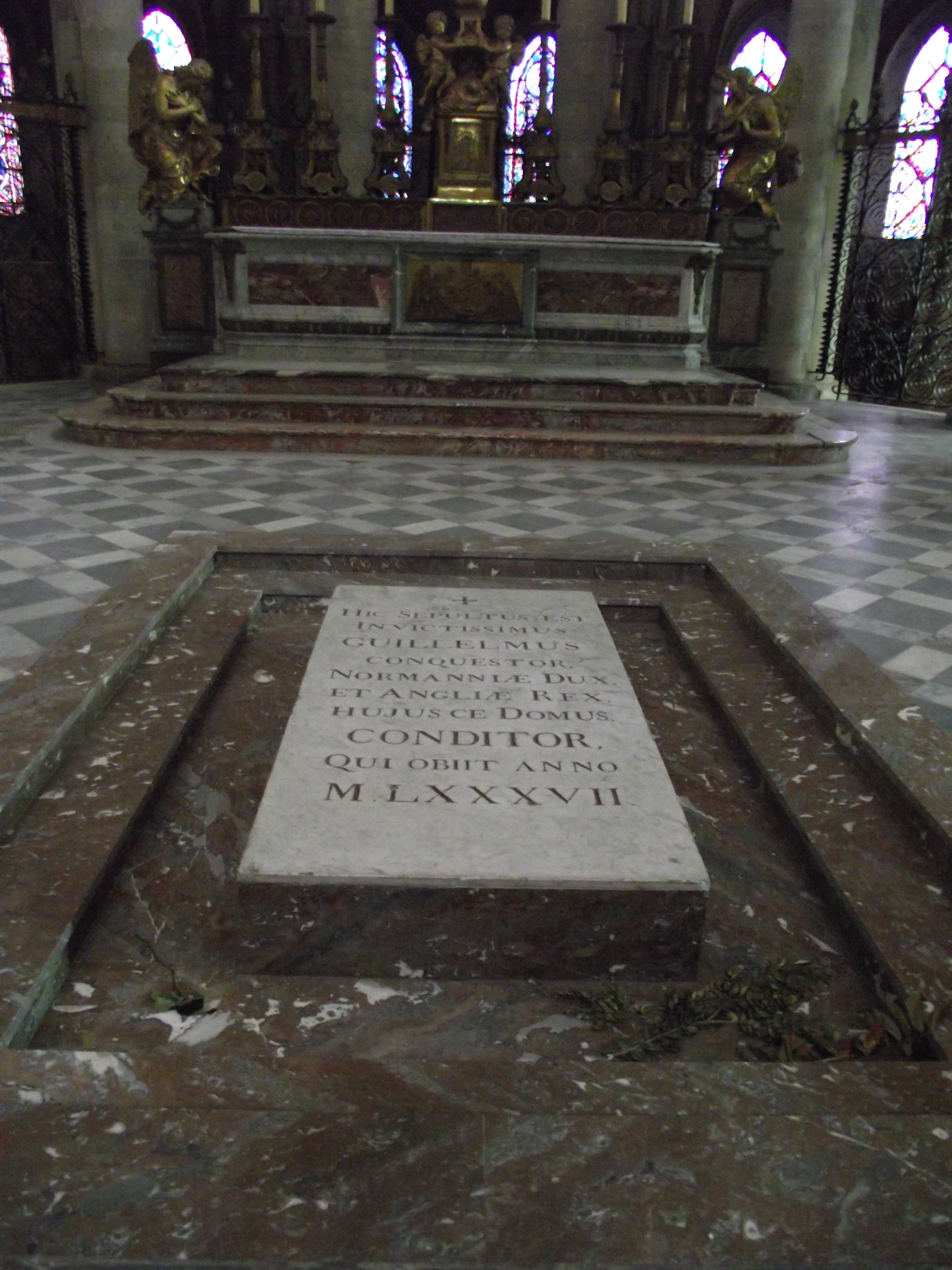 Caen, Saint Stephen's Church, William the Conqueror's grave